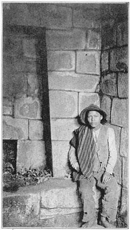 « The corner of the cave. Another flashlight of the interior of the cave under the semicircular tower in the Princess Group », in Machu Picchu, after Hiram Bingham III rediscovery, in 1912 (